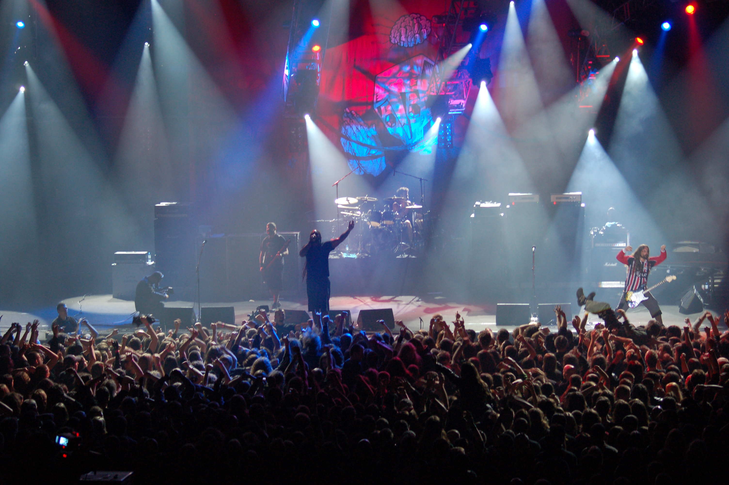 Metal band Sepultura during Metalmania 2007 festival